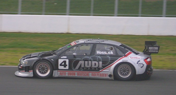 Audi A4 Chevrolet Sports Sedan driven by Darren Hossack at Eastern Creek Raceway during the 2008 Australian Sports Sedan Series